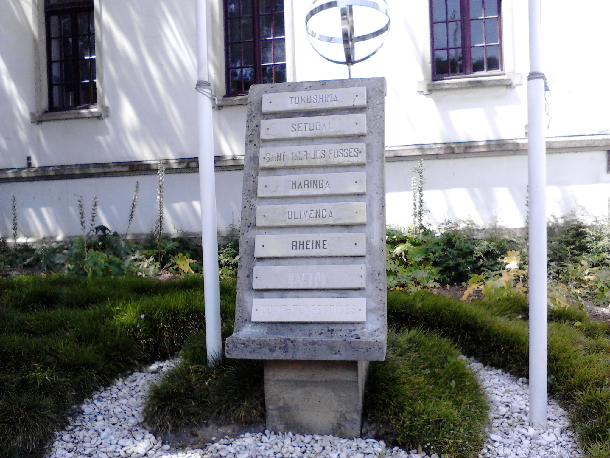 Picture of Friendship cities of Leiria